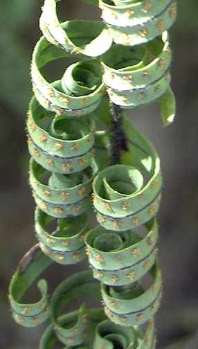 Plume Polypody, Plumed Rockcap Fern